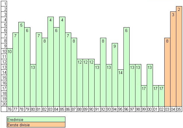 Dutch league positions of Sparta